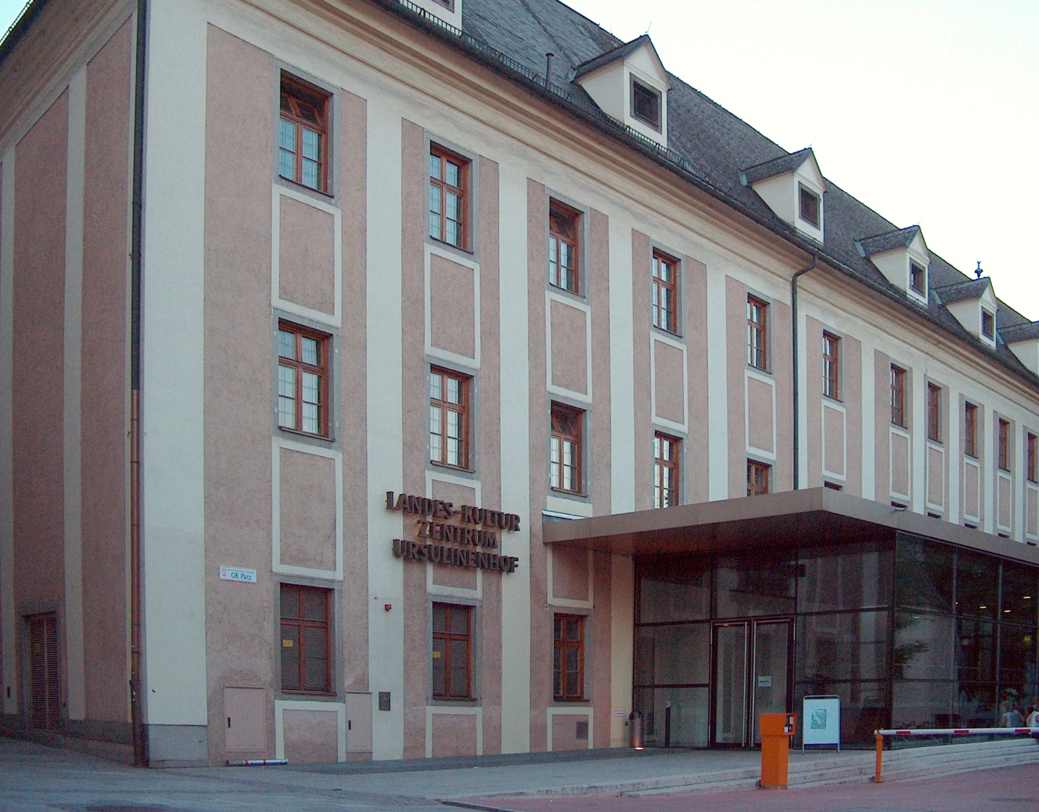 Linz - Landes Kulturzentrum Ursulinenhof, Fassade zum OK-Platz